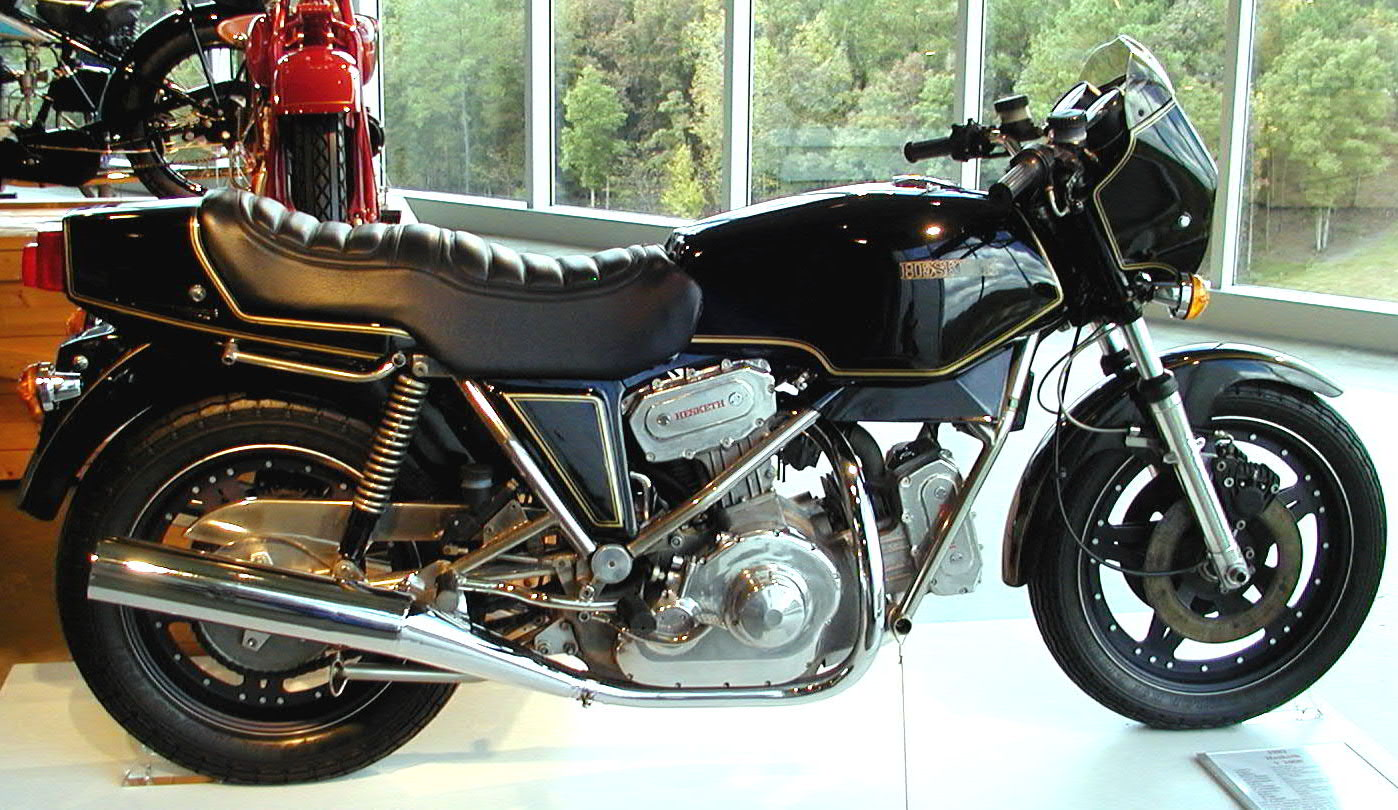 1982 Hesketh V1000 at Barber Motorcycle Museum